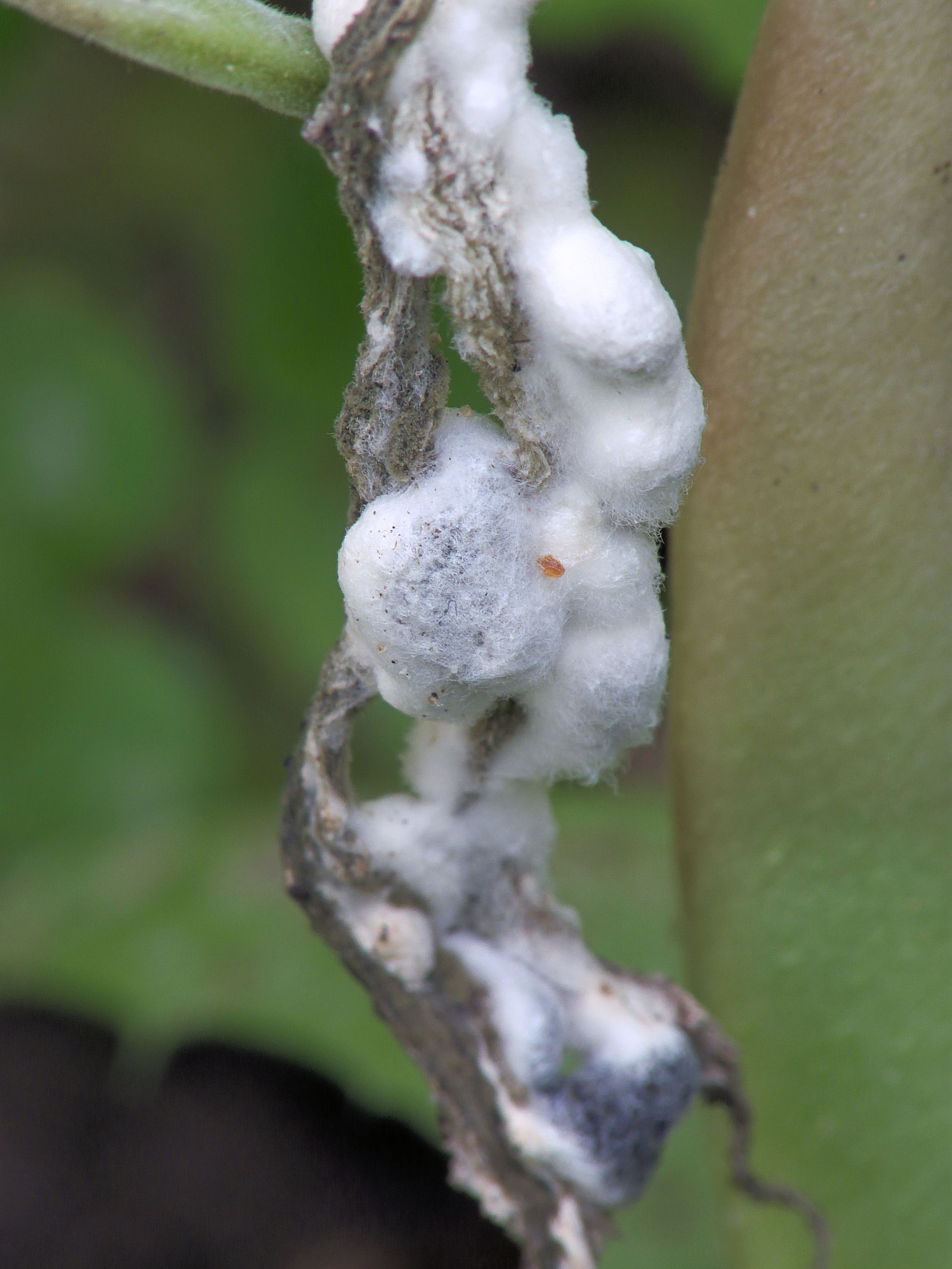 Sclerotinia sclerotiorum sclerotia on Phaseolus vulgaris bushbean